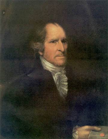 Timothy Pickering, Oil on canvas, 28¼" x 23¼", ca.